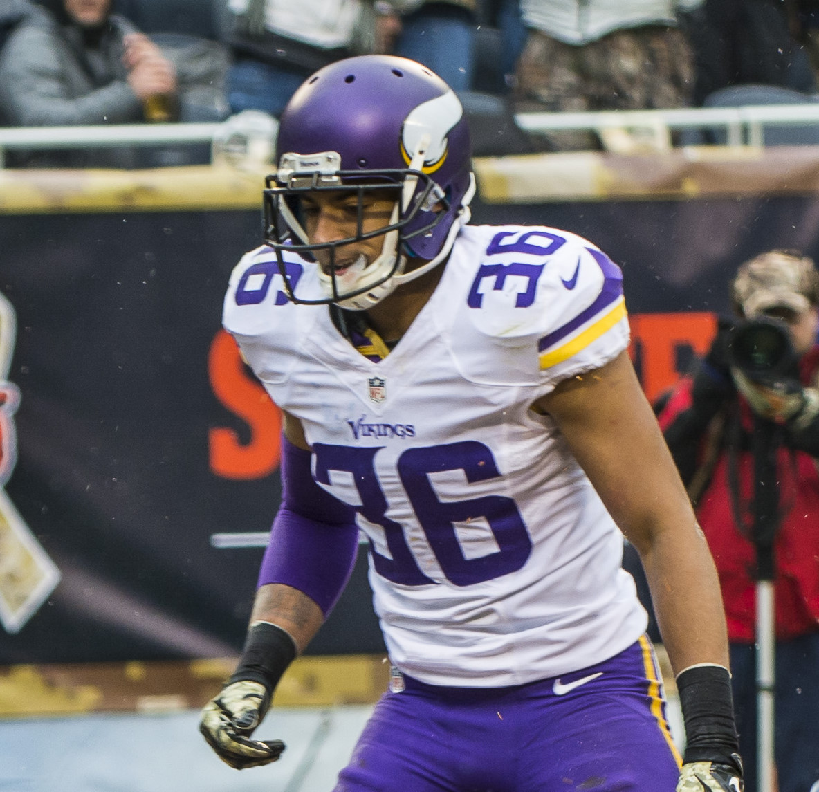 Minnesota Vikings safety, Robert Blanton, playing in a game against the Chicago Bears on November 16, 2014.